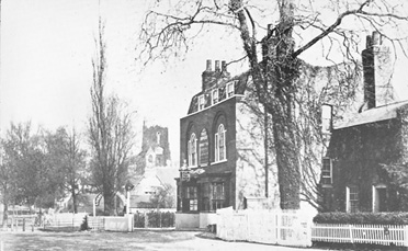 The Three Compasses at Hornsey, Middlesex, shown on a postcard of 1873